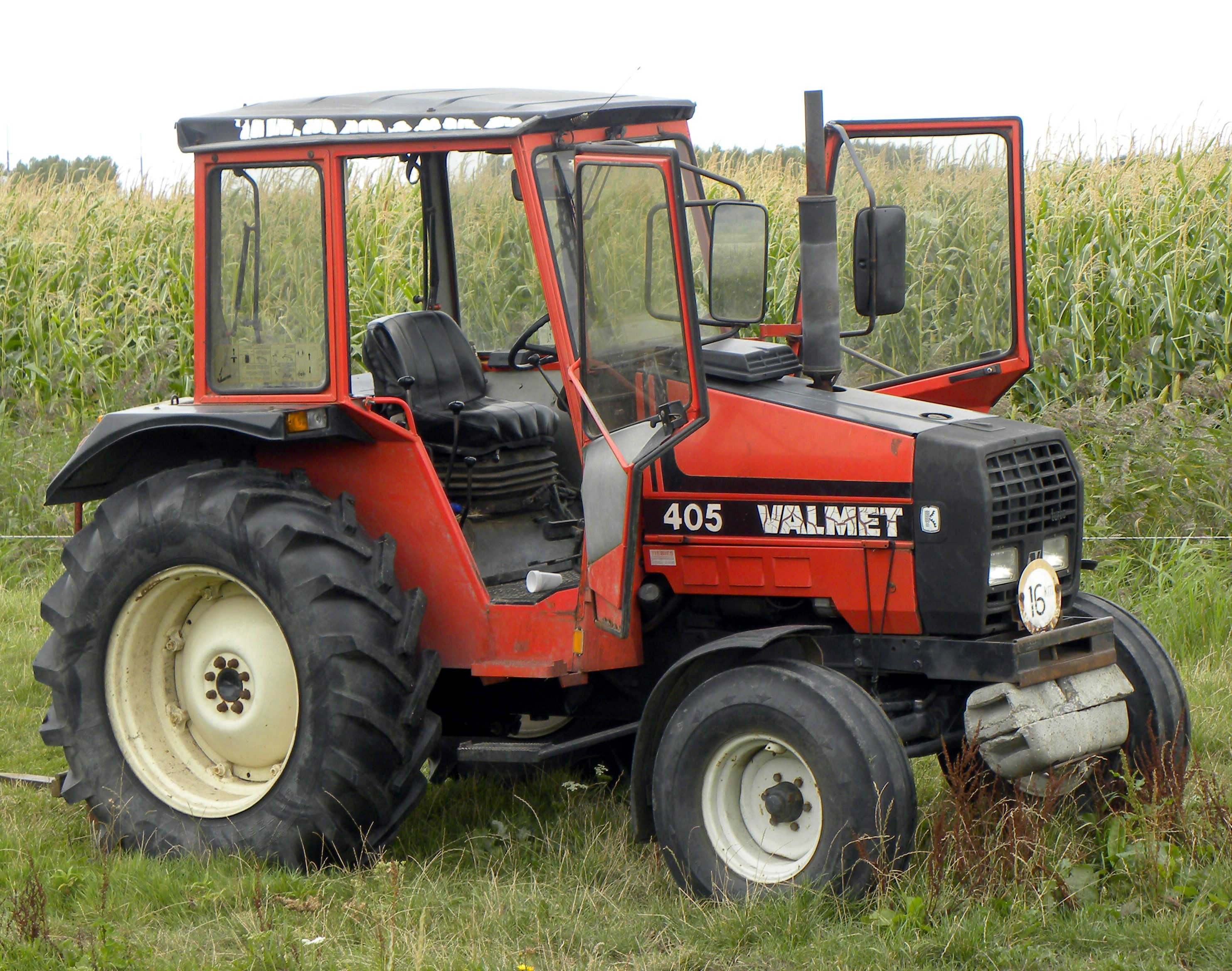 Valmet 405 tractor, produced from 1985 to 1991